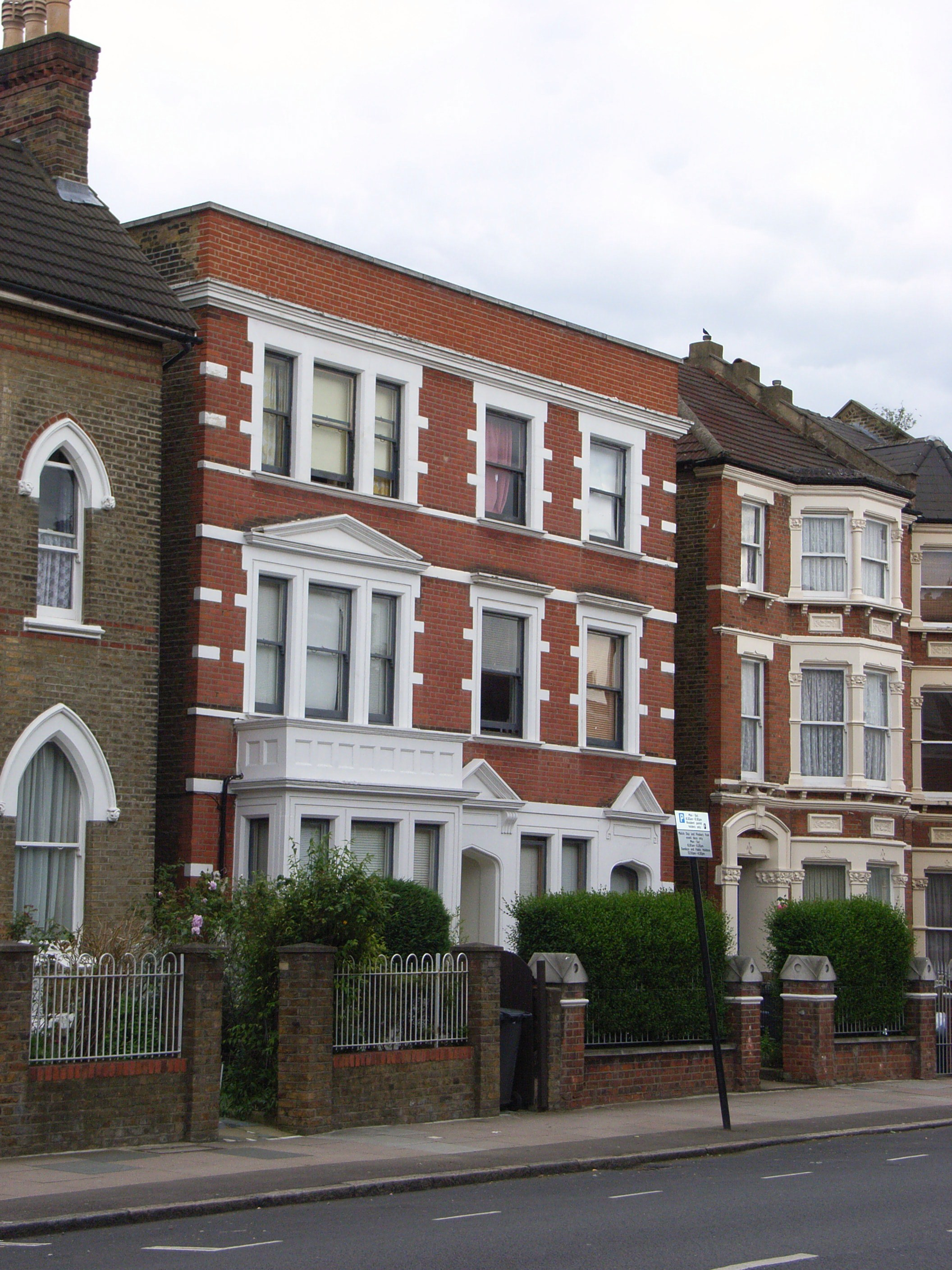 One of two buildings in Stapleton Hall Road, London, N4, that once belonged to the Stapleton Hall School for Girls, which closed in 1935. See Stroud Green, London for full details.